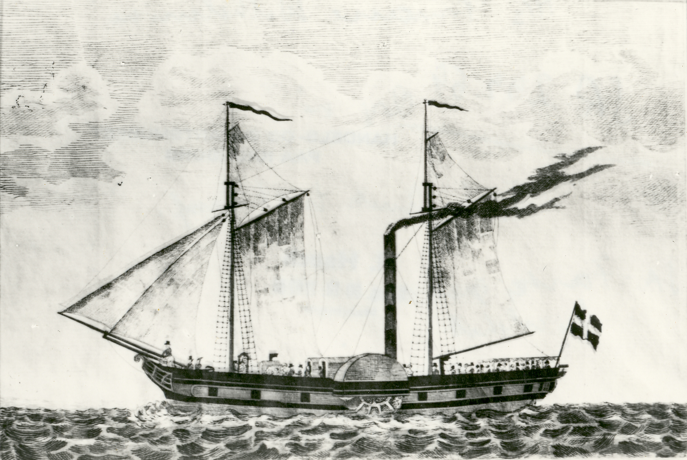 Lithograph of the Prindsesse Wilhelmine, owned by Øresunds Toldkammer.